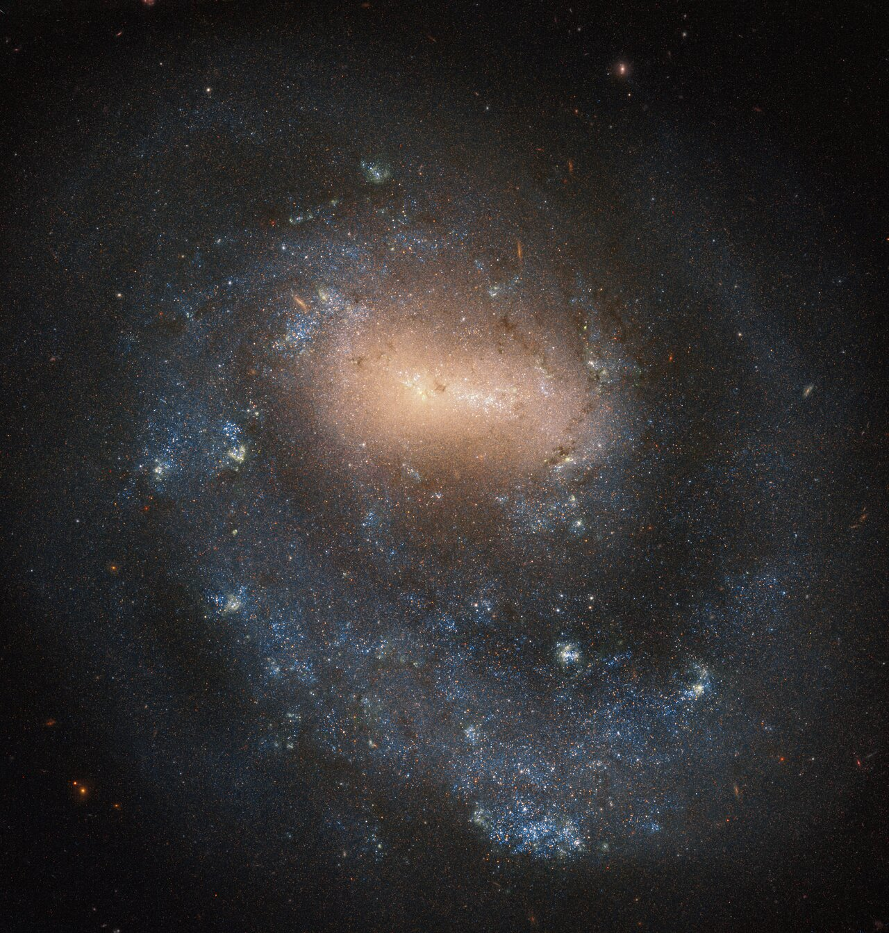 NGC 4618 was discovered on 9 April 1787 by the German-British astronomer, Wilhelm Herschel, who also discovered Uranus in 1781. Only a year before discovering NGC 4618, Herschel theorised that the “foggy” objects astronomers were seeing in the night sky were likely to be large star clusters located much further away then the individual stars he could easily discern. Since Herschel proposed his theory, astronomers have come to understand that what he was seeing was a galaxy. NGC 4618, classified as a barred spiral galaxy, has the special distinction amongst other spiral galaxies of only having one arm rotating around the centre of the galaxy. Located about 21 million light-years from our galaxy in the constellation Canes Venatici, NGC 4618 has a diameter of about one third that of the Milky Way. Together with its neighbour, NGC 4625, it forms an interacting galaxy pair, which means that the two galaxies are close enough to influence each other gravitationally. These interactions may result in the two (or more) galaxies merging together to form a new formation, such as a ring galaxy. Credit: ESA/Hubble & NASA, I. Karachentsev